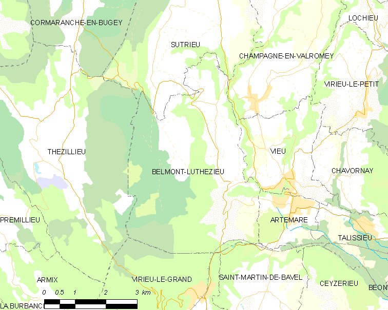 Map of French commune: Belmont-Luthézieu Map commune FR insee code 01036.png